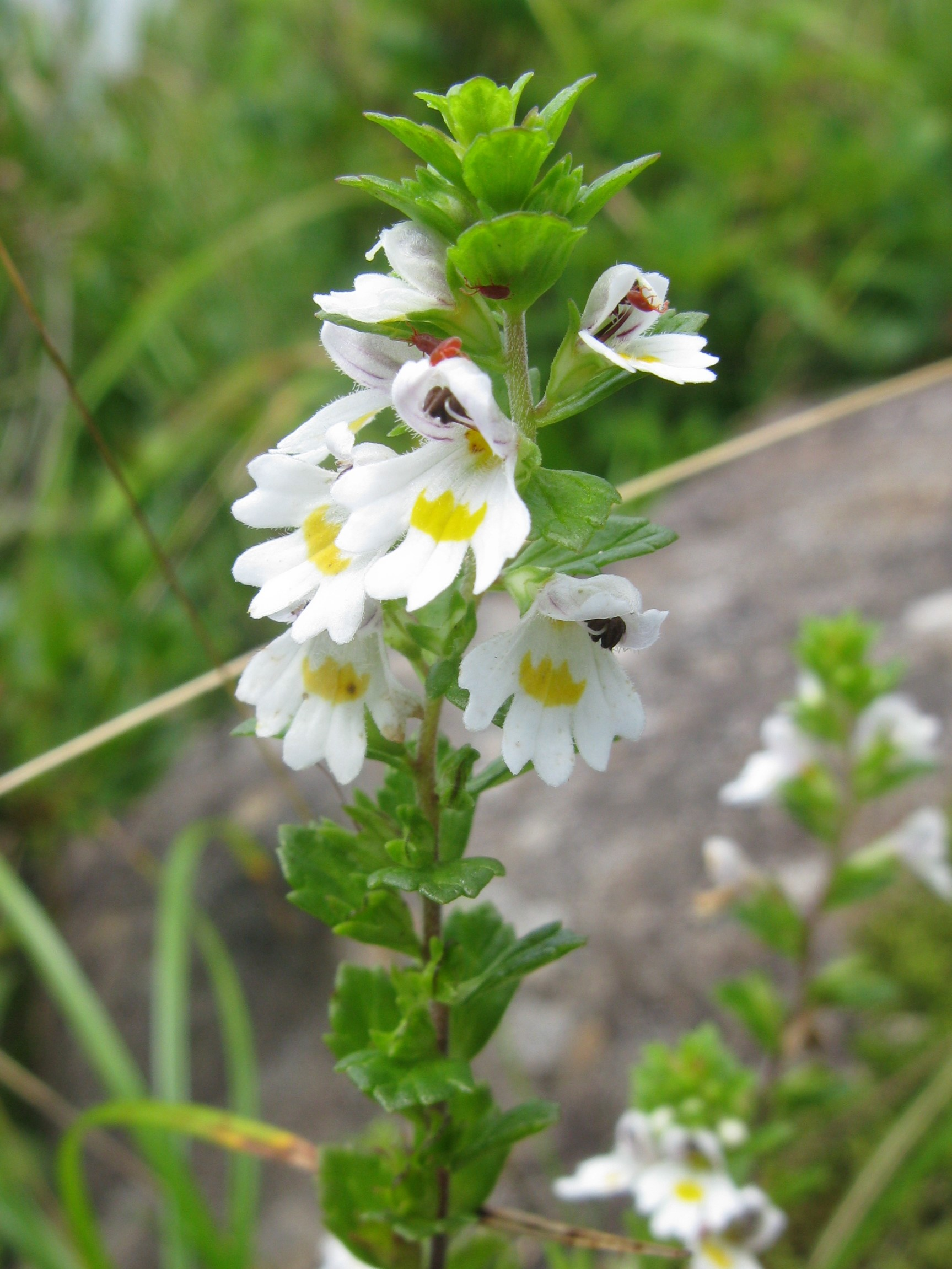 Euphrasia insignis, Mount Iide, Fukushima pref., Japan